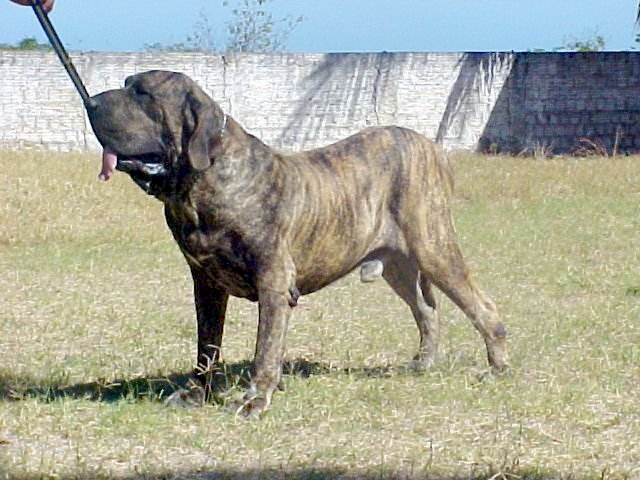 Nino da Fazenda Rio Negro